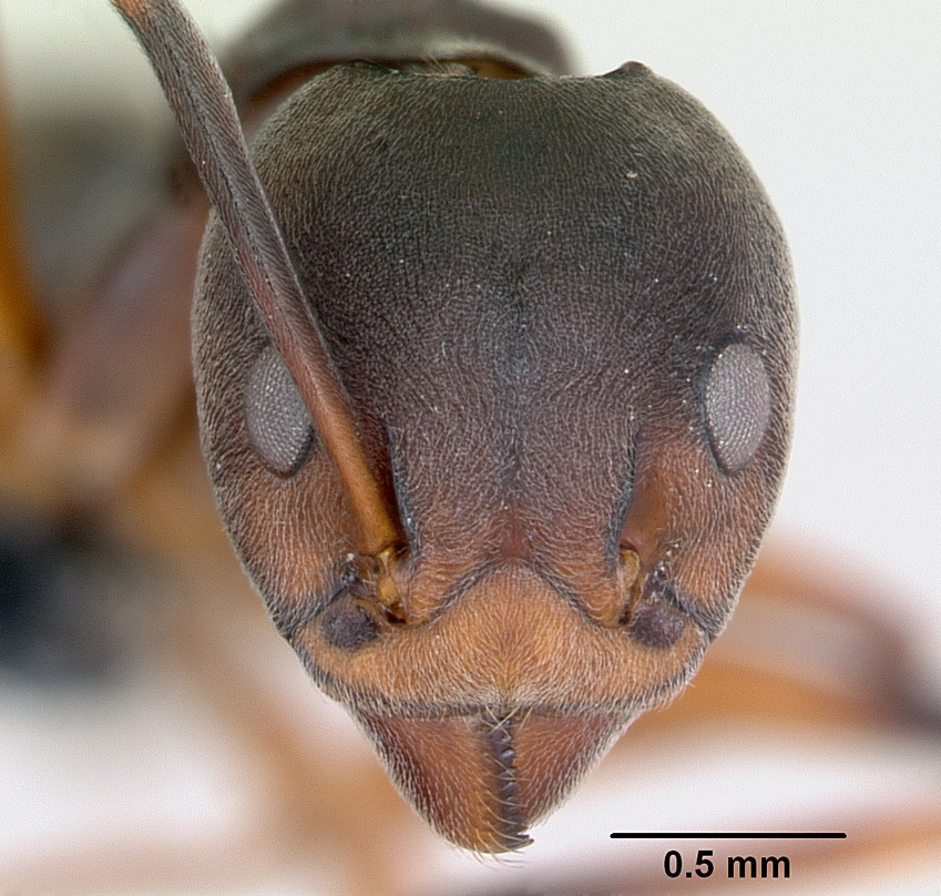 Head view of ant Dolichoderus erectilobus specimen casent0009956.